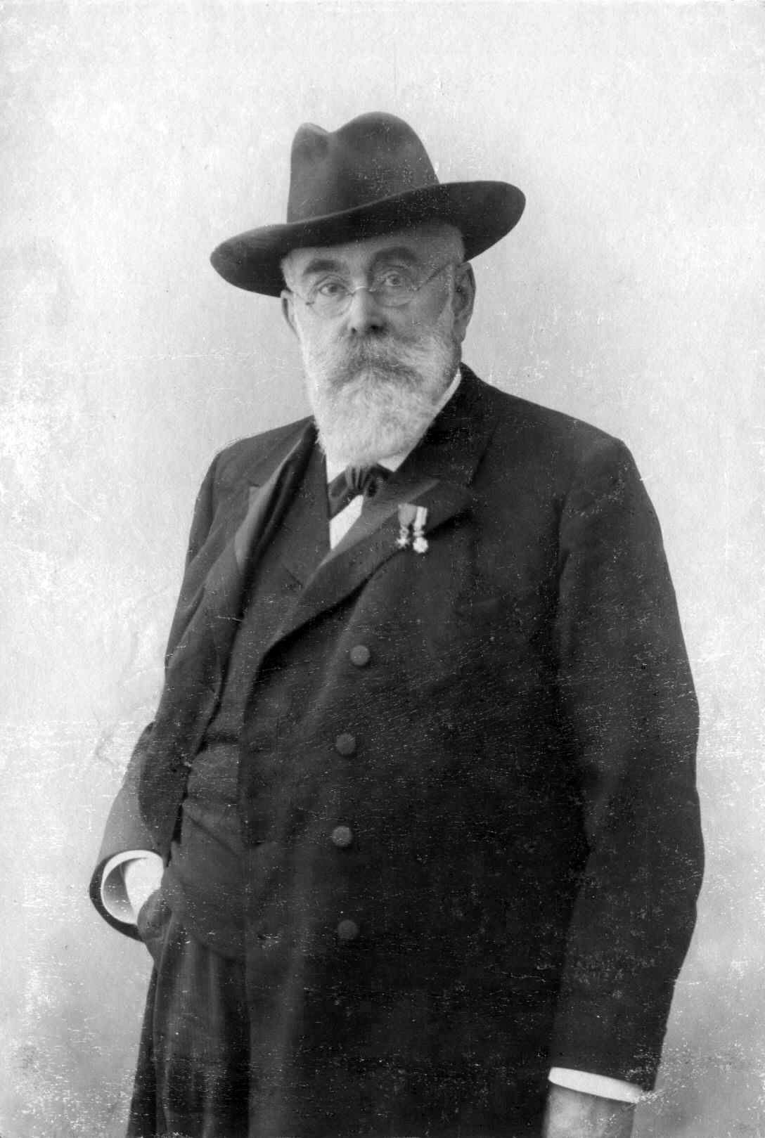 Mr. Franciscus T.J.H. Dobbelmann (Nijmegen 08-08-1830 - Nijmegen 18-12-1912), Nijmegen Soap manufacturer, who belonged to the prominent Catholic MPs.